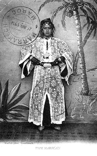 Historical photographs of Moroccan women.